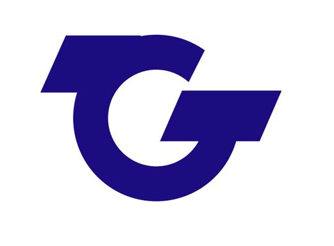 Flag of Hirono Fukushima